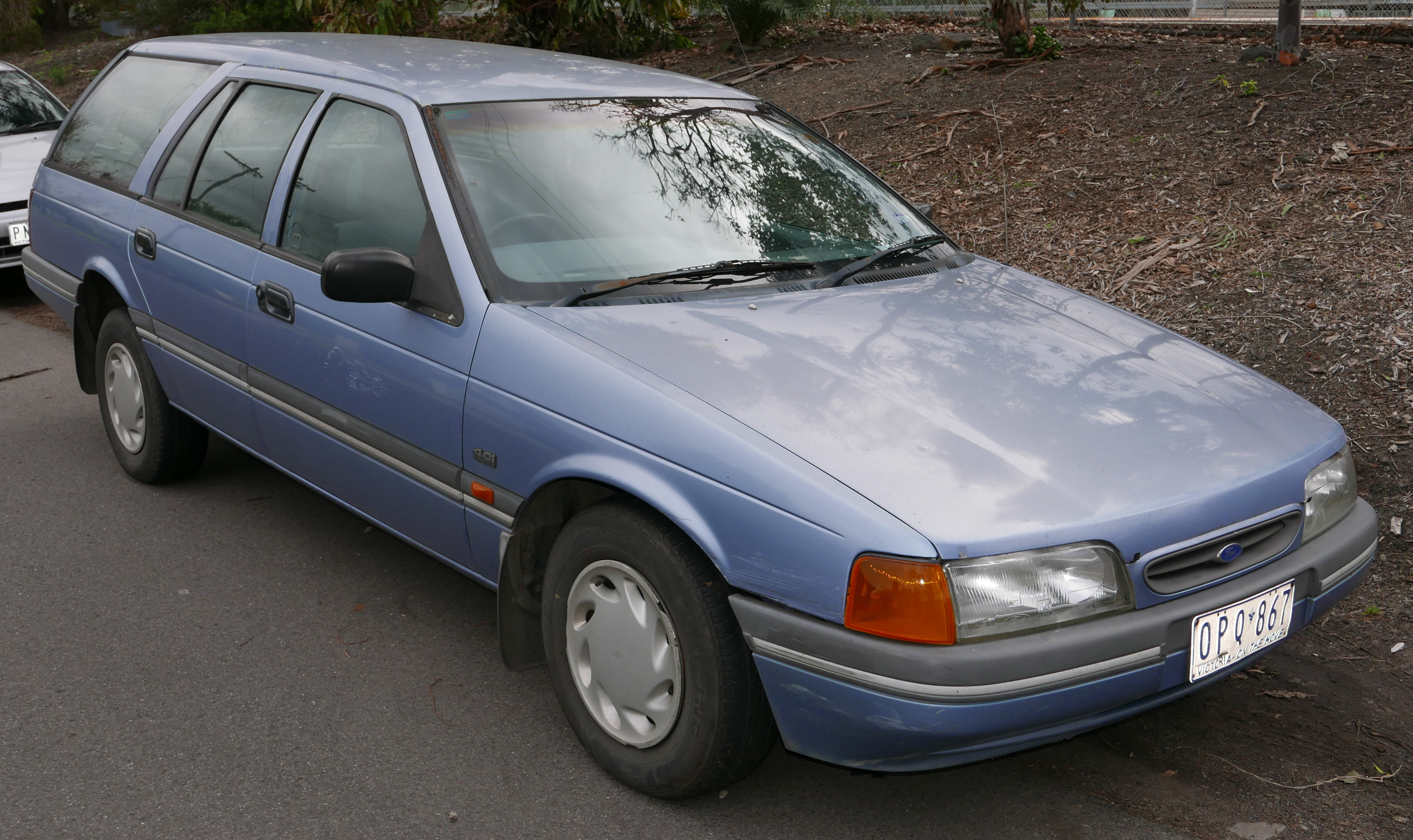 1993 Ford Falcon (ED) GLi station wagon. Photographed in Northcote, Victoria, Australia. Vehicle registration enquiry results Jurisdiction Victoria Registration OPQ867 Chassis code 6FPAAAJGWAPC42861 Engine code JGWAAPC42861 Compliance date 1993-09 Year of manufacture 1993